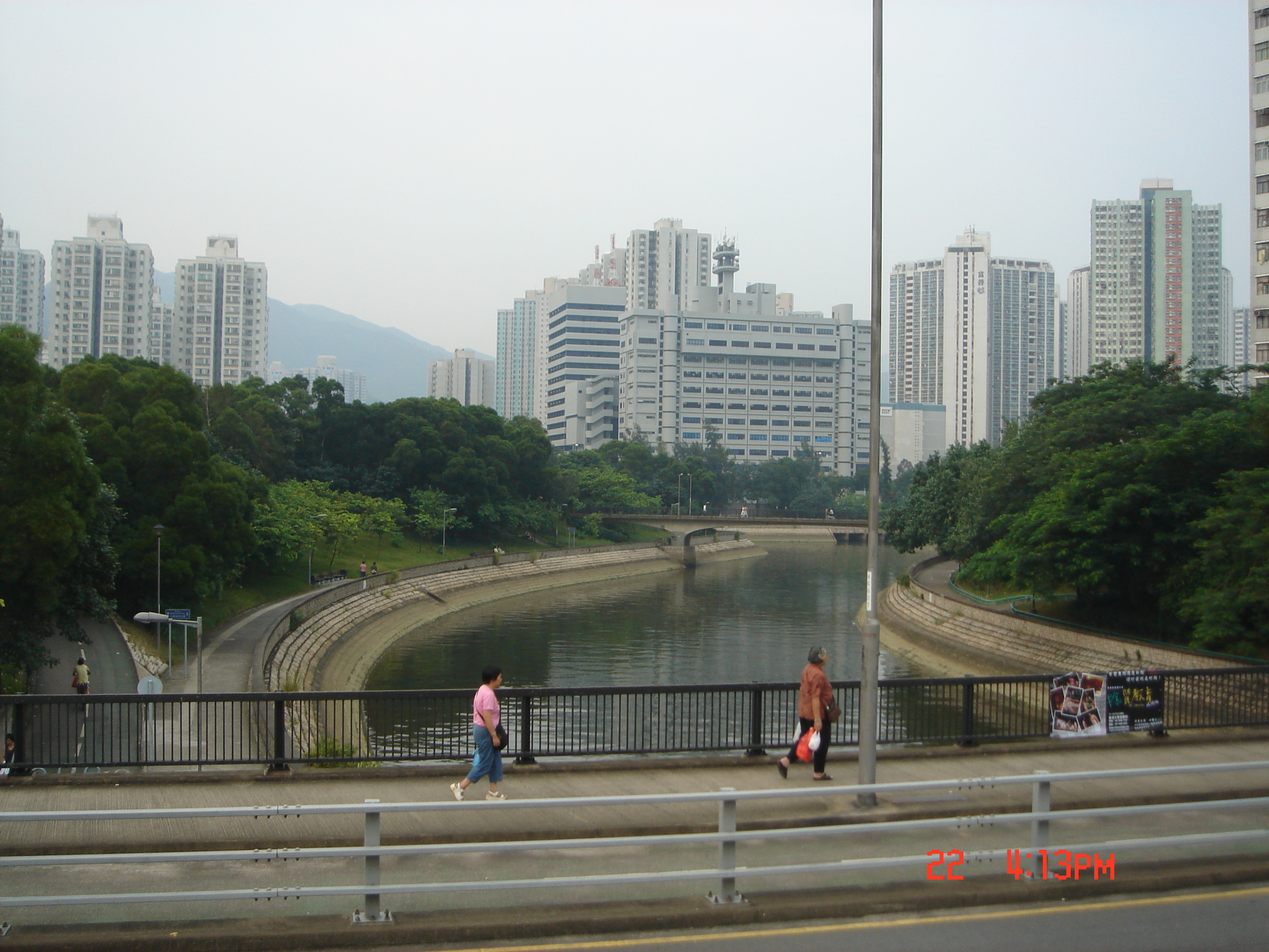 Tai Po River near Kwong Fuk Estate (small part of building visible on the left of the picture). Far end is intersection with Lam Tsuen River.